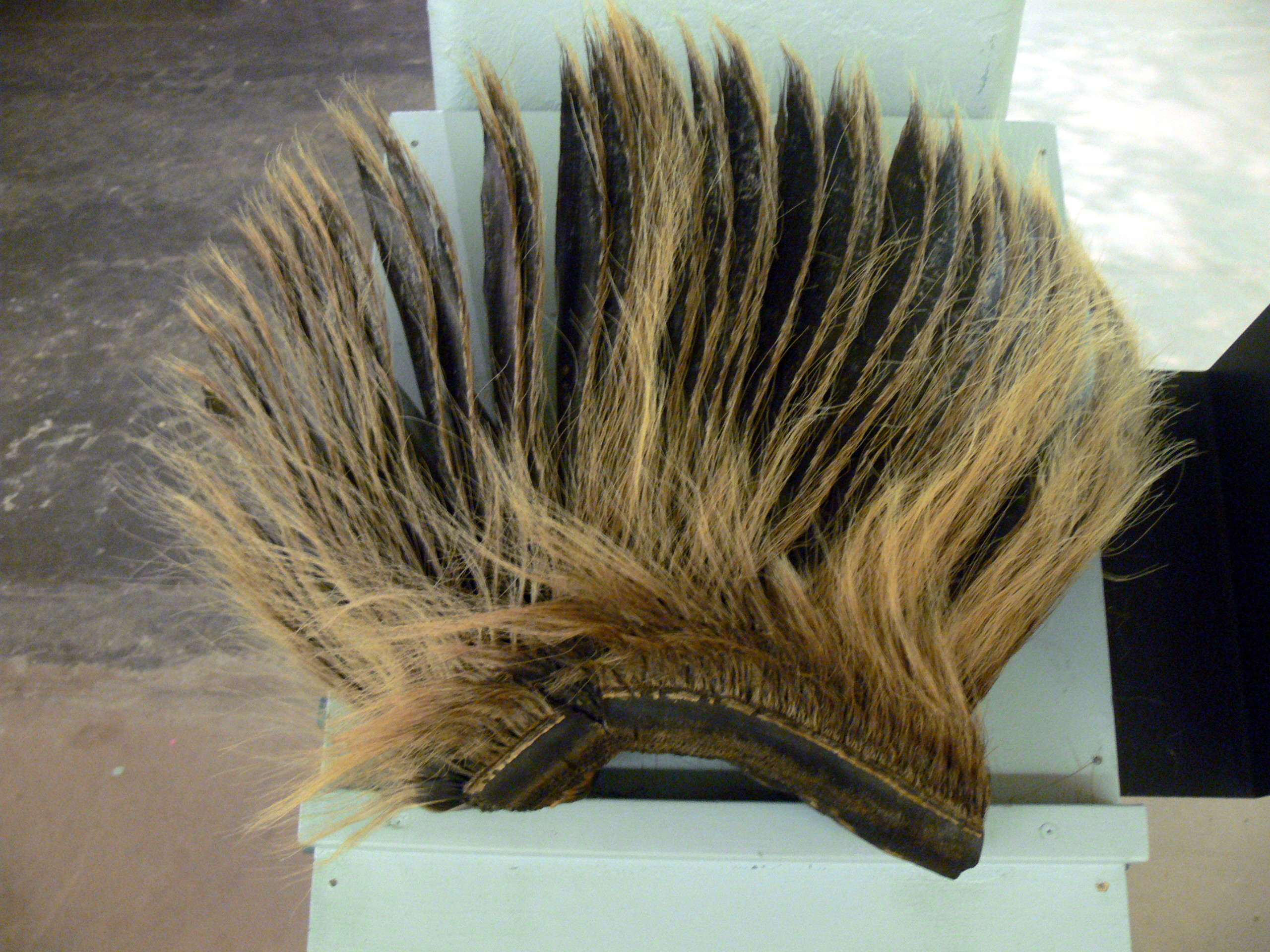 Whale Museum in Húsavík. Baleens of a humpback whale.